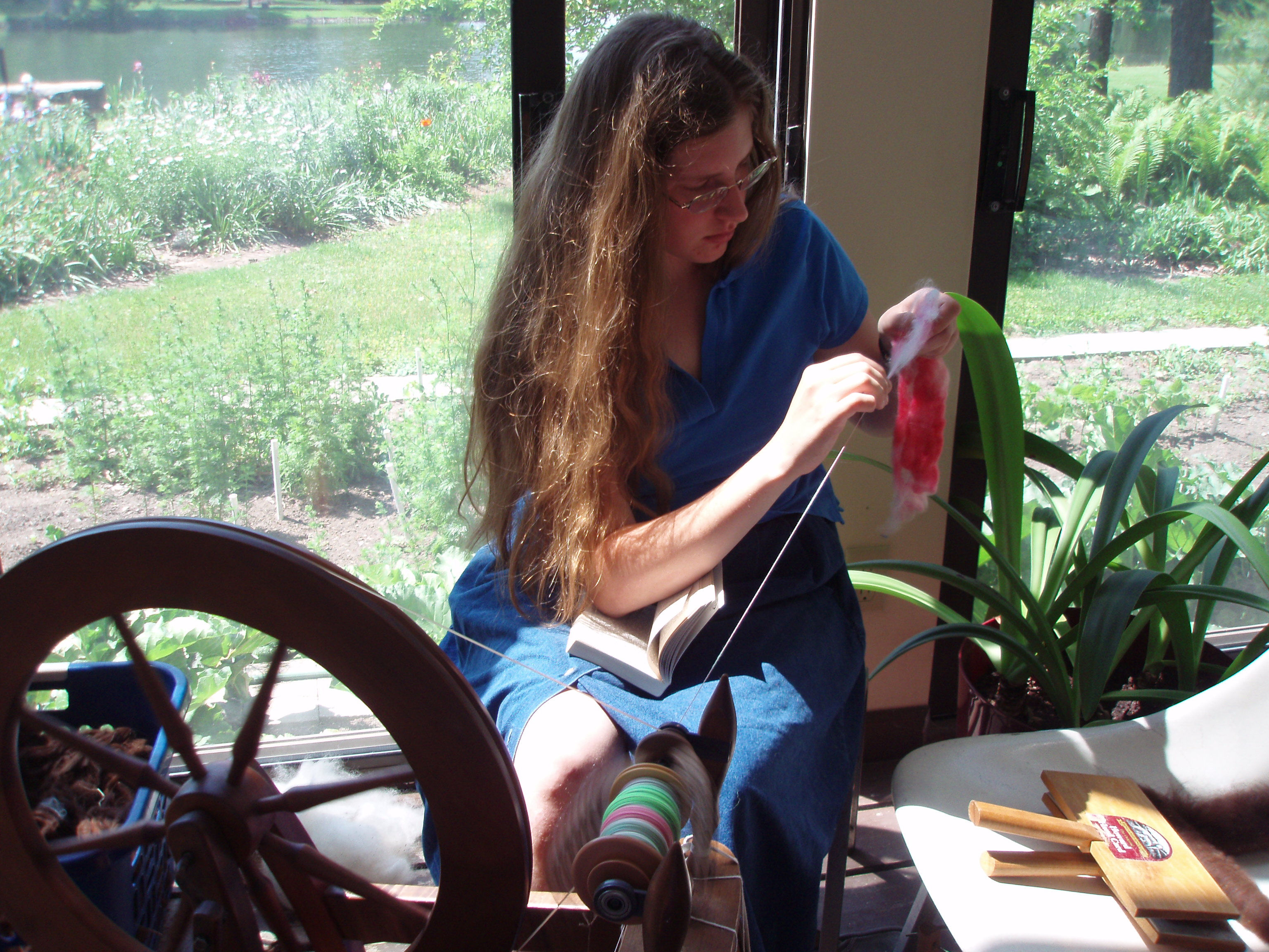 A picture of a young handspinner spinning yarn